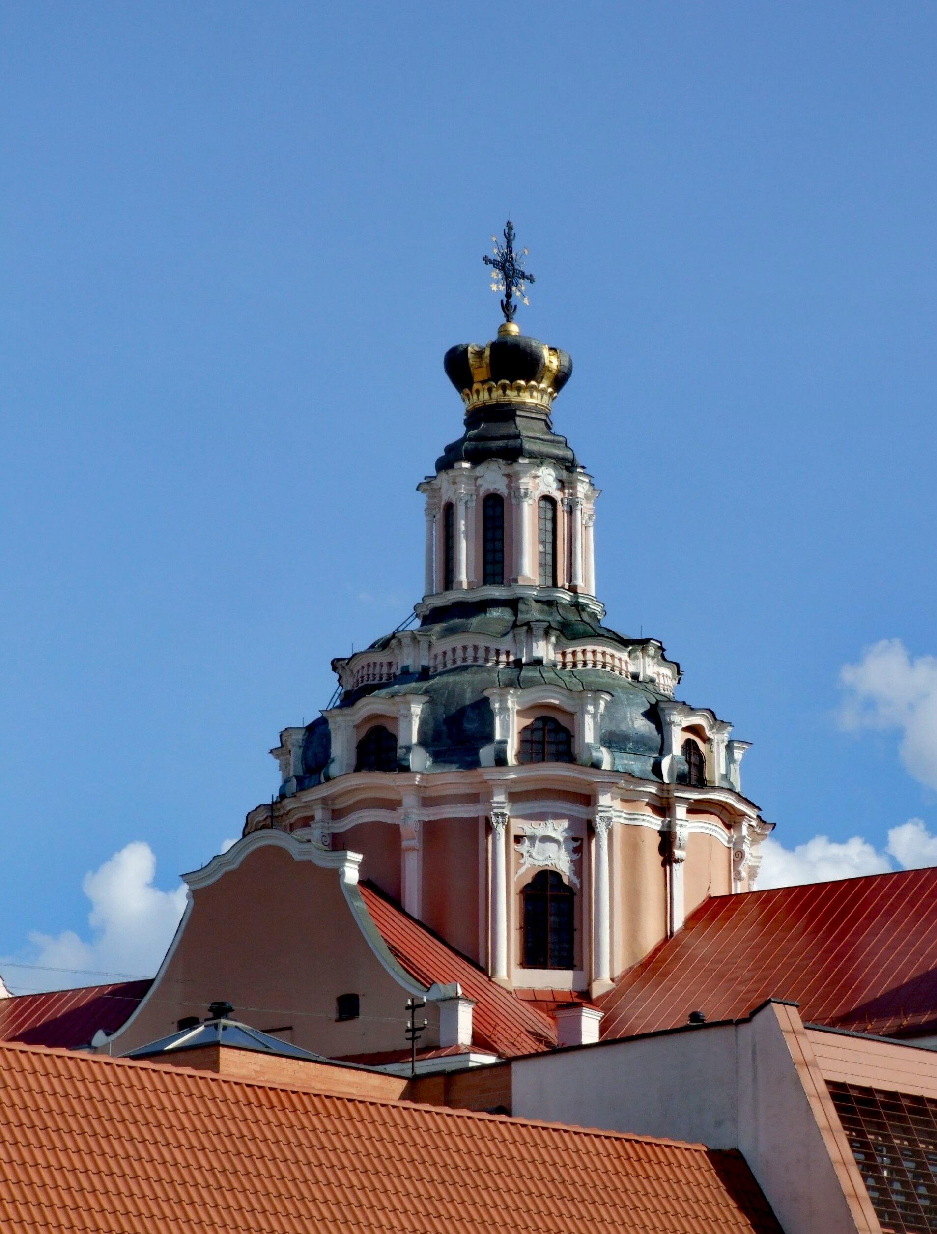 Church of St Casimir in Vilnius (Wilno) - crown